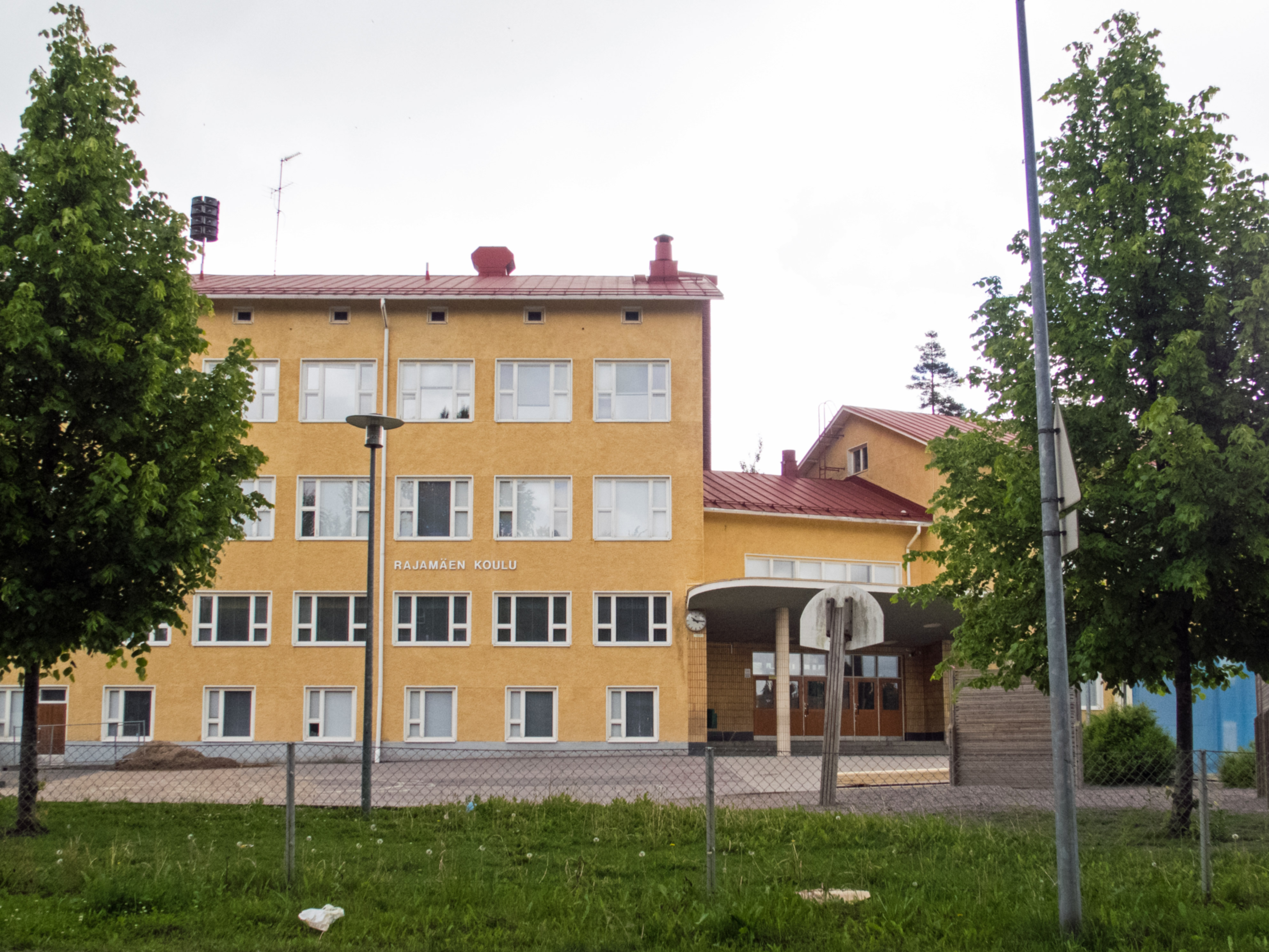 Rajamäen koulu school Rajamäki Nurmijärvi Finland, grades 1 to 9.